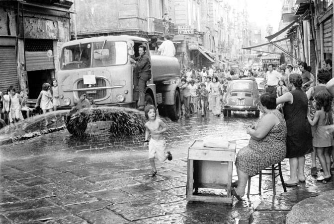 Disinfestazione delle strade di Napoli durante l'epidemia di colera del 1973